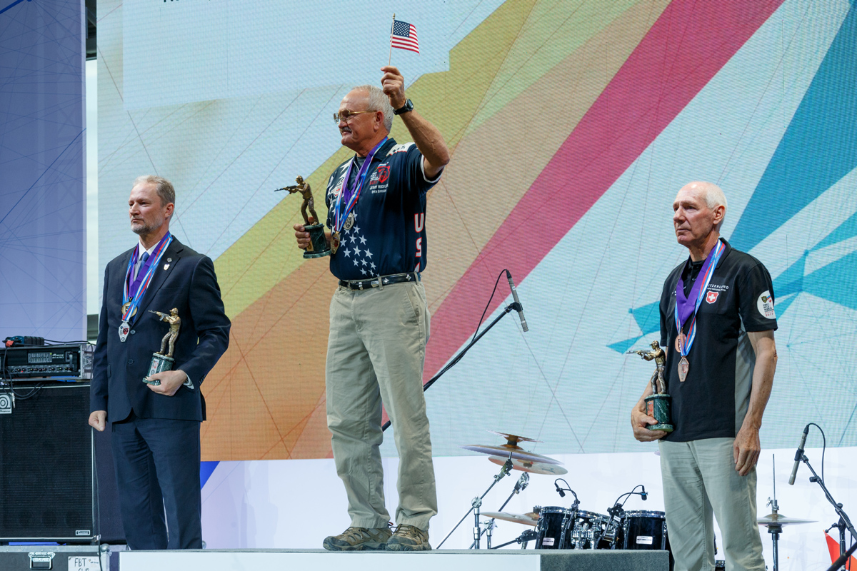 Jerry Miculek wins the Open Division Super Senior category at the 2017 IPSC Rifle World Shoot in front of Pertti Karhunen and Peter Kressibucher